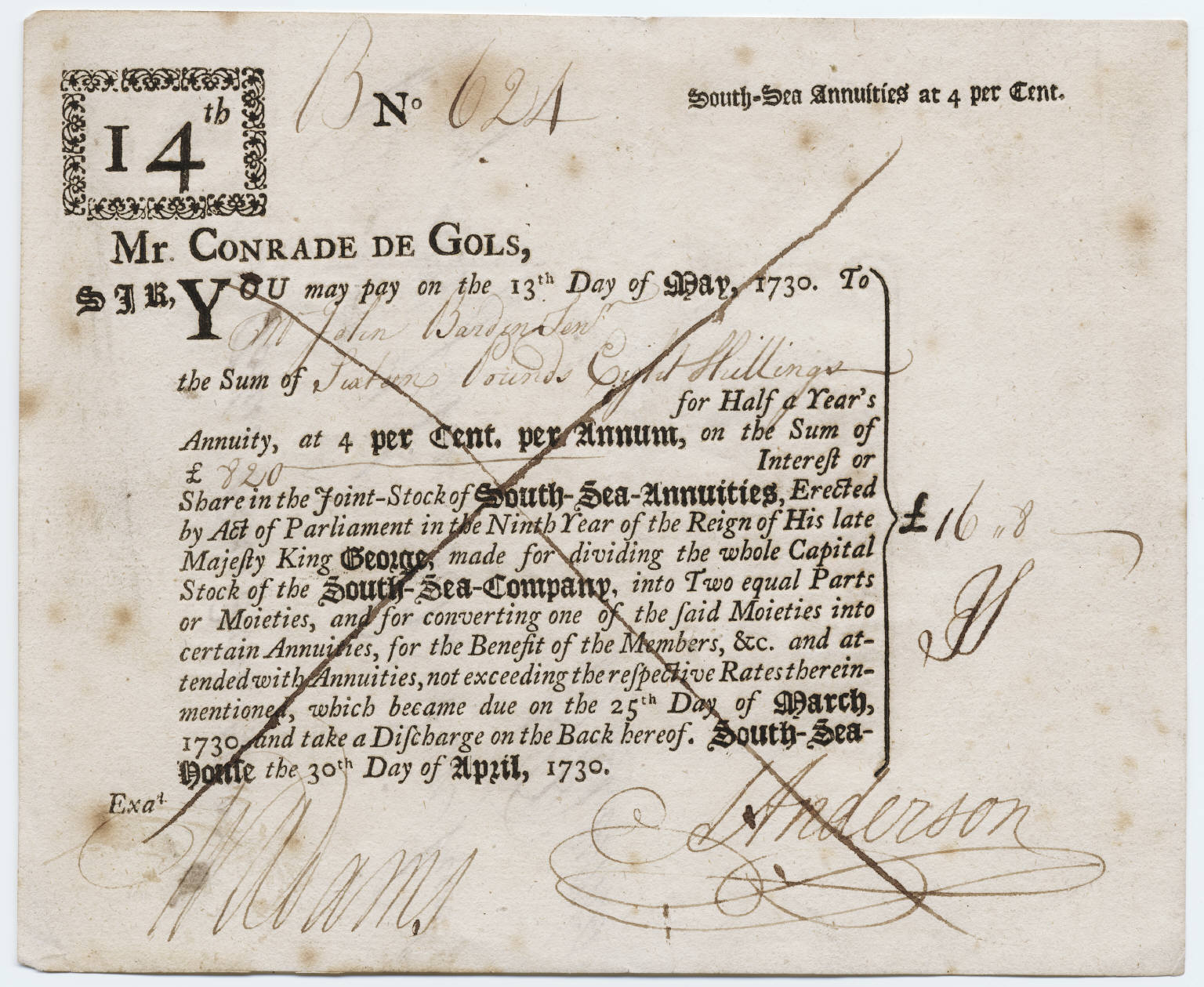 Annuities advance notice, printed form, addressed to John Bardin, Jr., completed in manuscript, and signed by J. Anderson and W. Dams. Issued by the South Sea Company, London, and dated 30 April 1730. 16 cm. x 18 cm. Courtesy of the General Collection, Beinecke Rare Book and Manuscript Library, Yale University, New Haven, Connecticut.